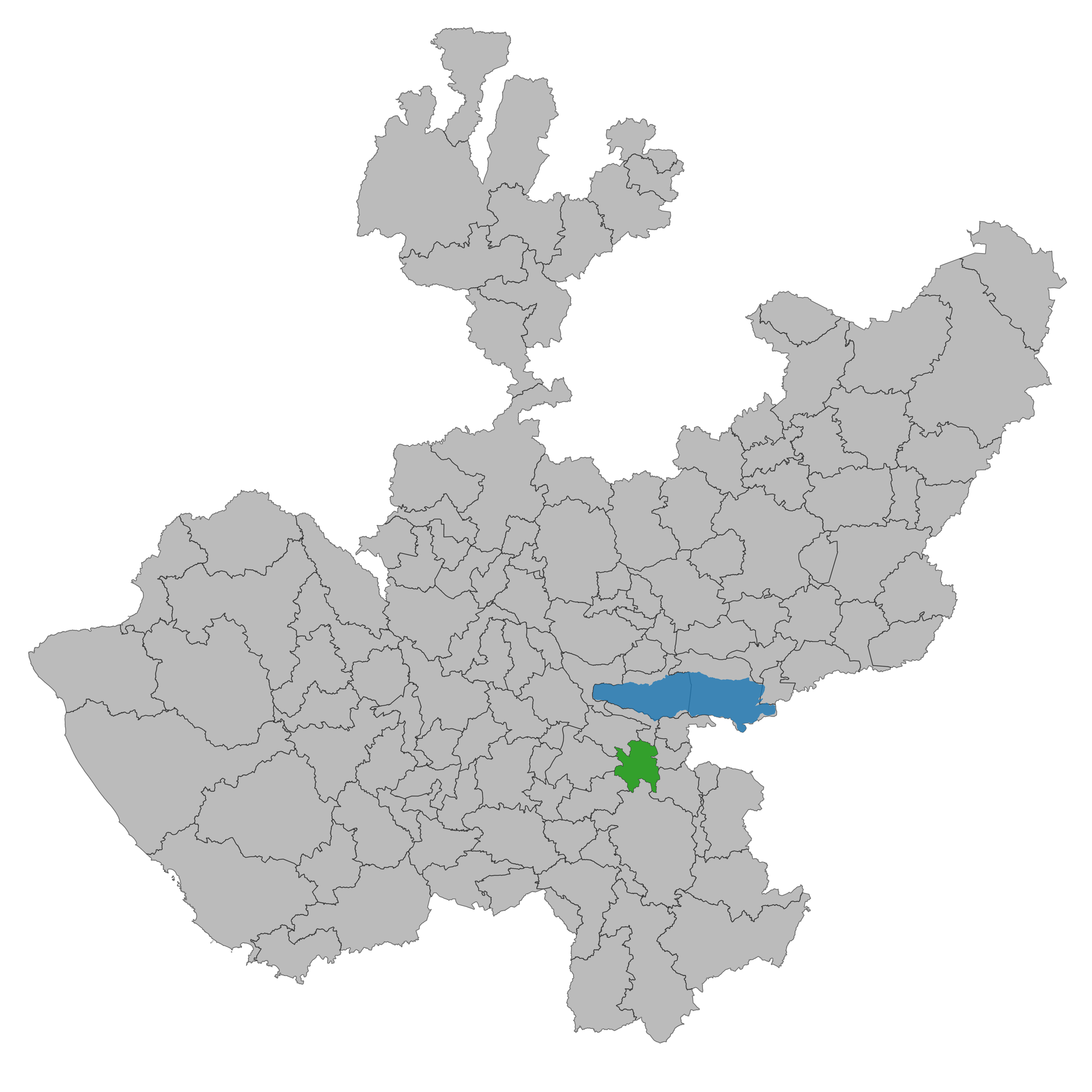 Municipality of Jalisco. Prepared with the software QGIS version 2.8.2 Wien & with information of SCINCE 2010 version 05/2013